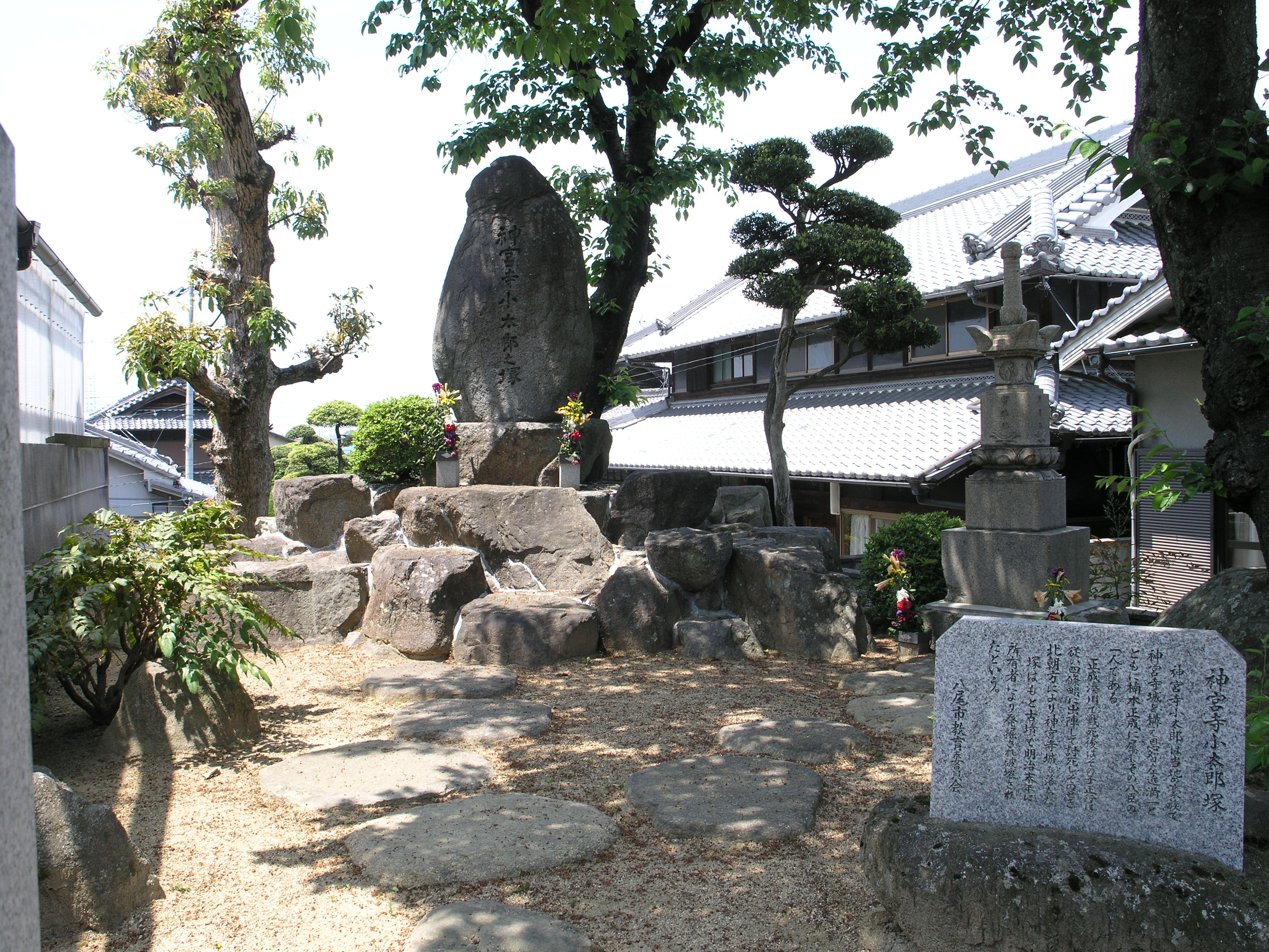 Jinguji Kotaro zuka, Yao, Osaka, Japan